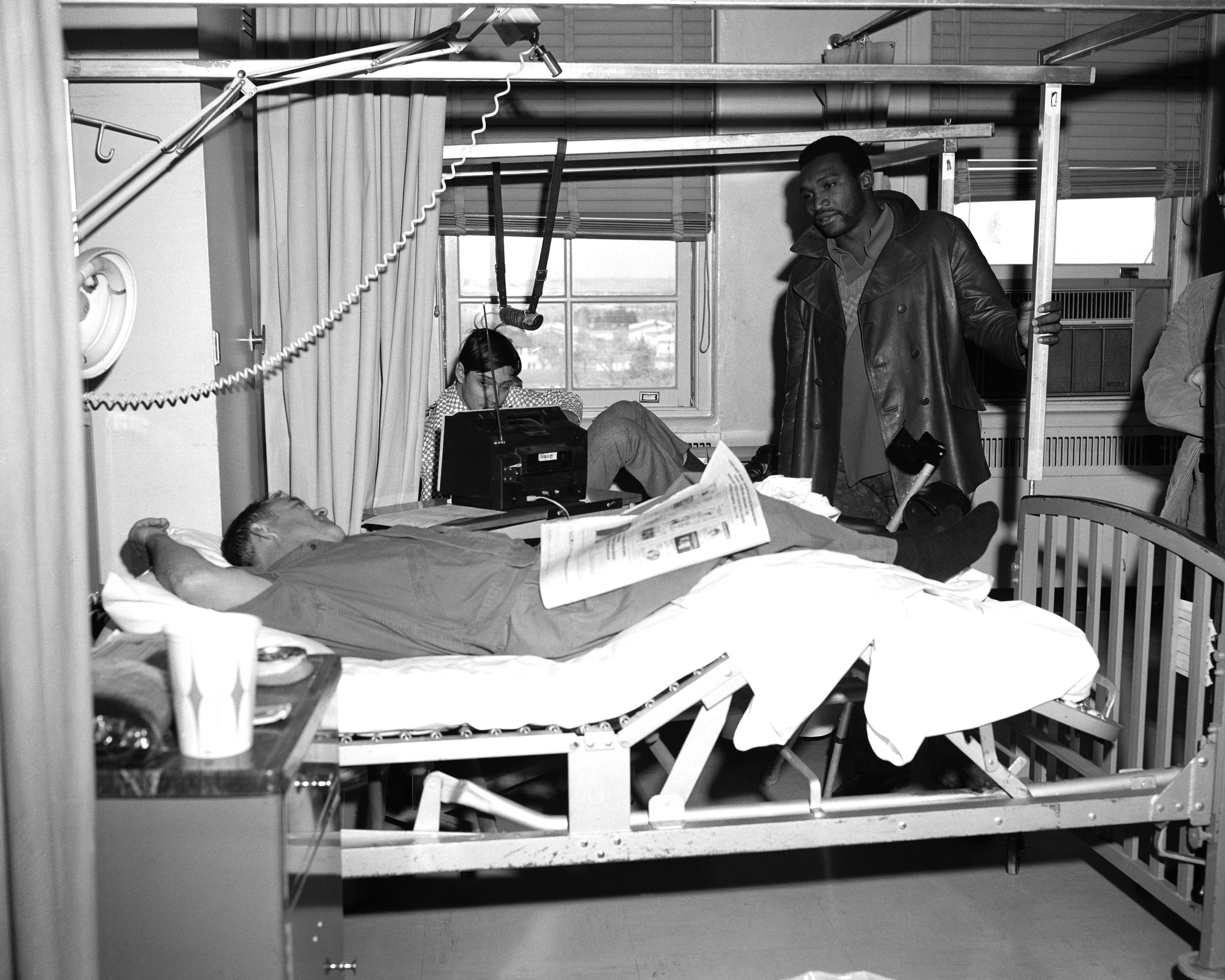 Professional football player Wendell Hayes of the Kansas City Chiefs visits patients at Fitzsimons General Hospital in Aurora, Colorado.